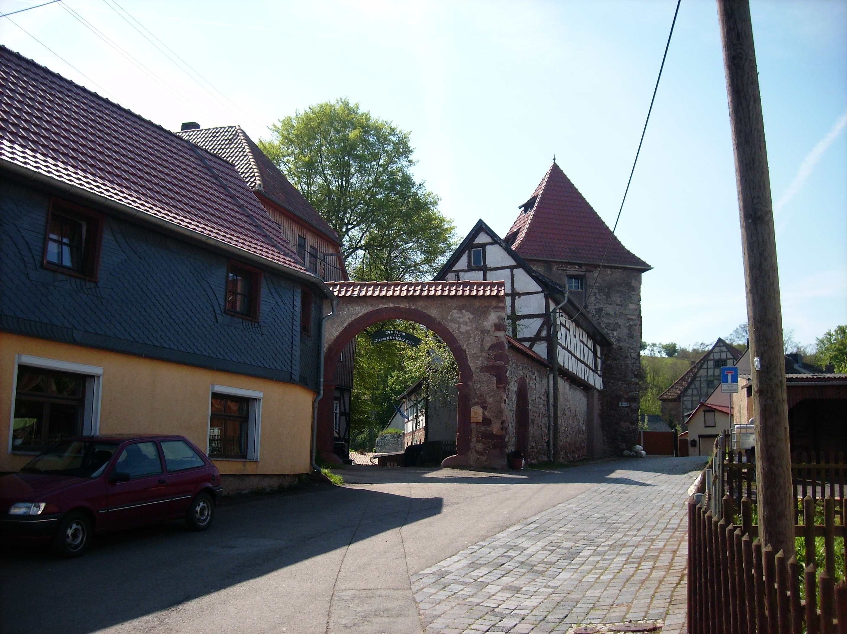 Rüxleben estate, Auleben (Heringen/Helme, Nordhausen district, Thuringia)